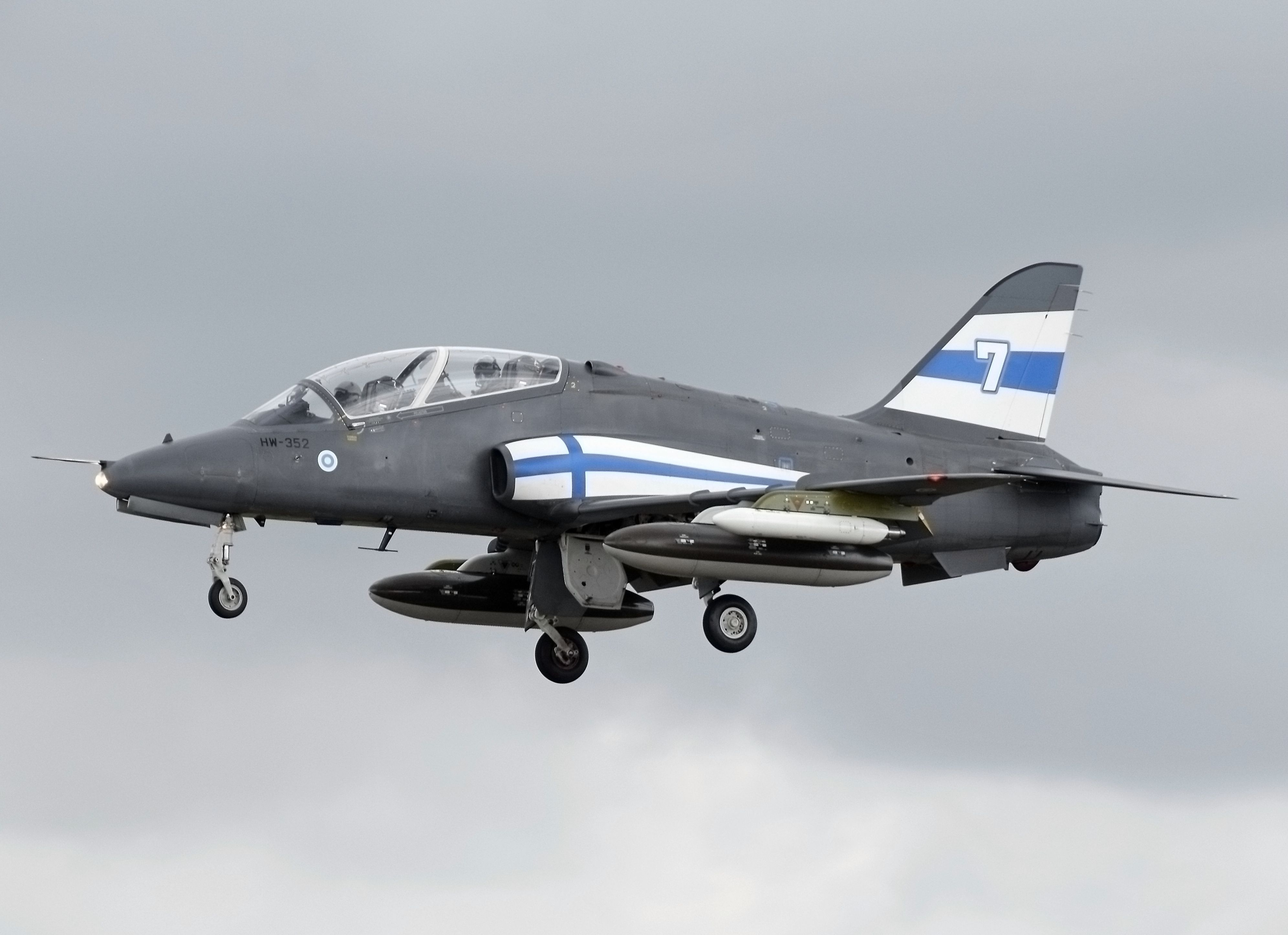 BAe Hawk 51 (HW-352) of the Finnish Air Force Midnight Hawks, arrives at the 2017 Royal International Air Tattoo, RAF Fairford, England. The blue and white livery for the 2017 season commemorates the 100th year of Finland's independance from Russia. The pilots are members of the Finnish Air Force. The four Hawks are numbered 1 to 4 and the spare is always number seven. The aircraft shown here, although the spare, looks (necessarily) exactly like the other four aircraft.